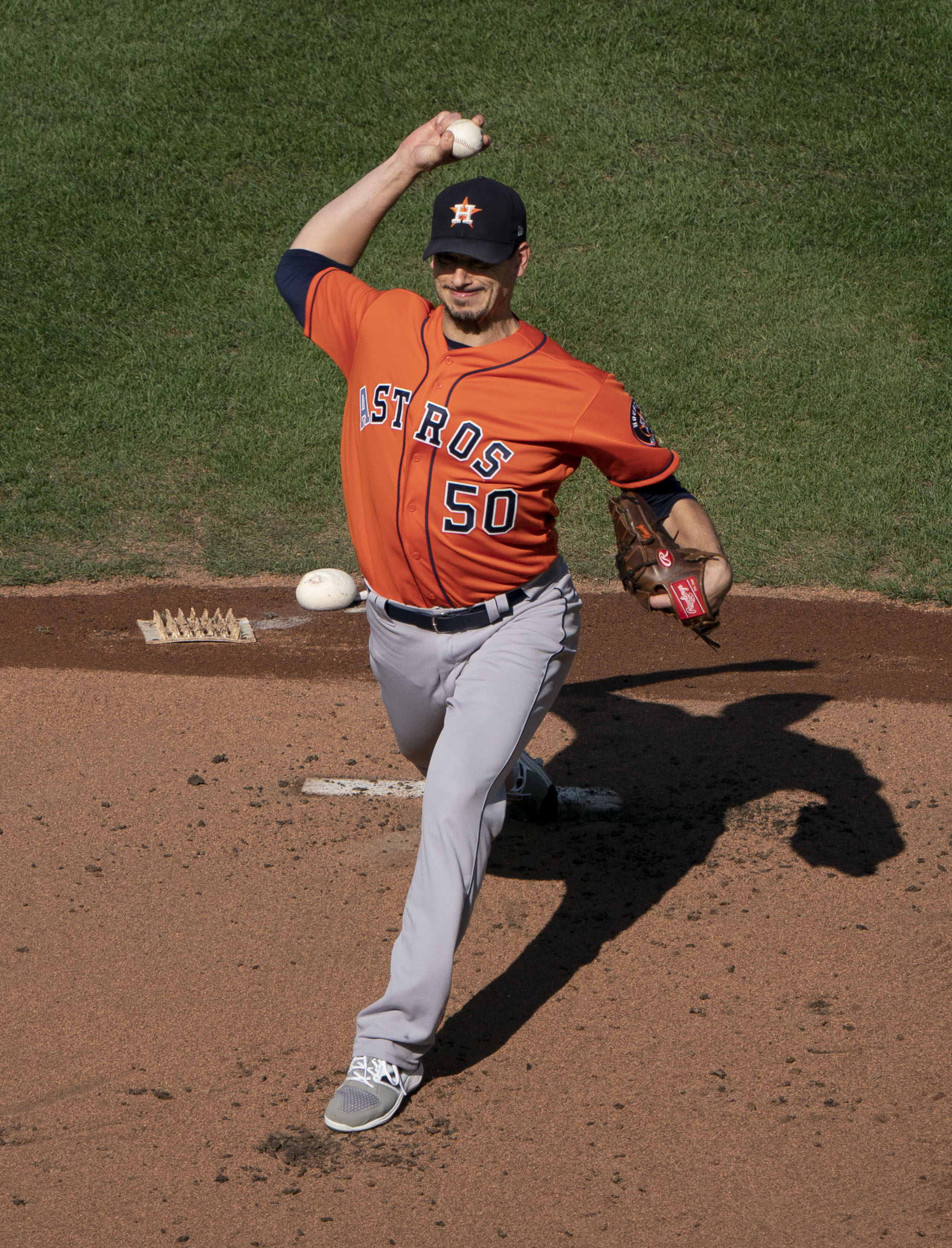 Charlie Morton pitching for the Astros on September 30, 2018.